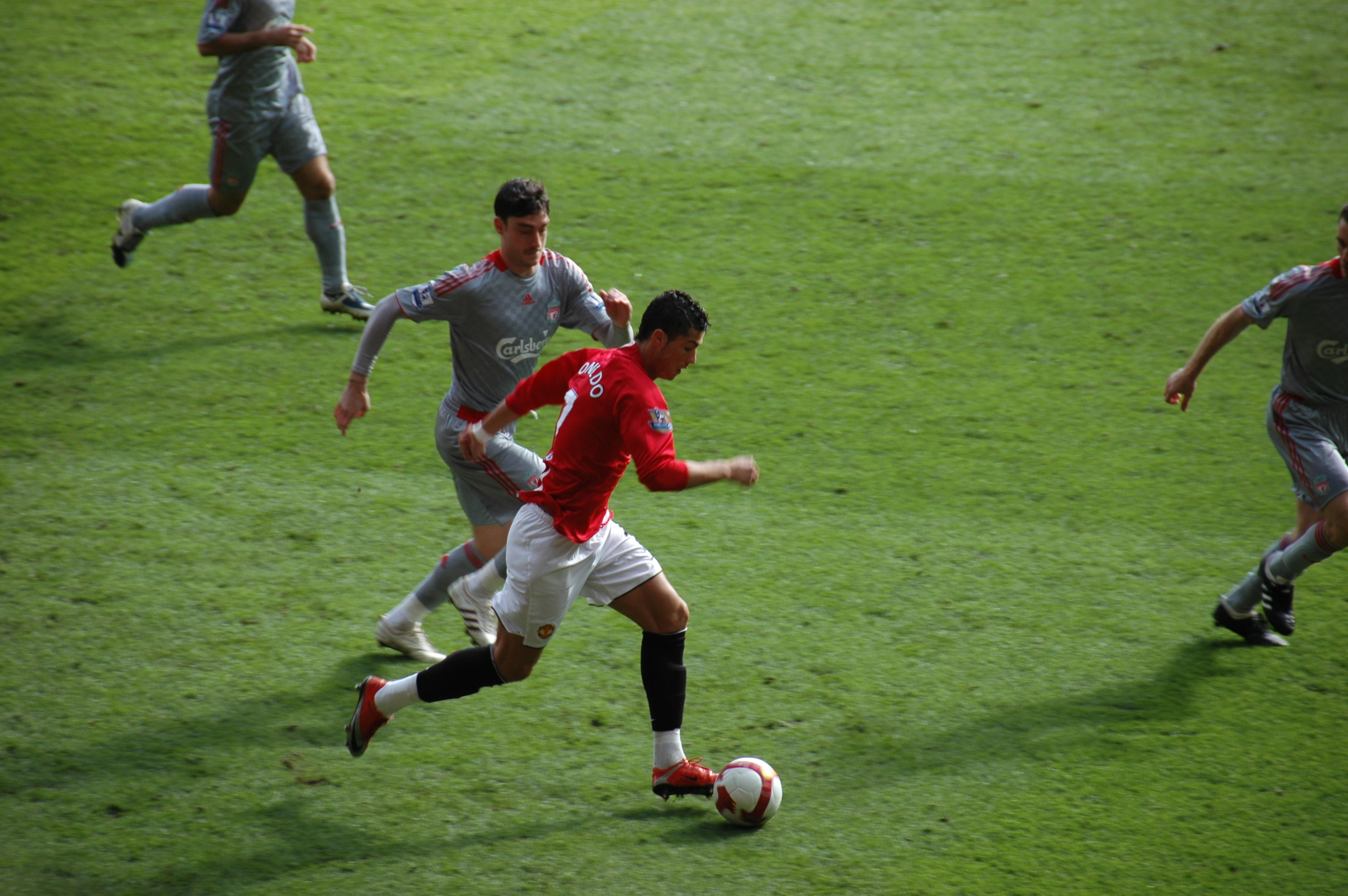 Cristiano Ronaldo in action during the Premier League match between Manchester United FC and Liverpool FC in Old Trafford (Manchester) on 14 March 2009.